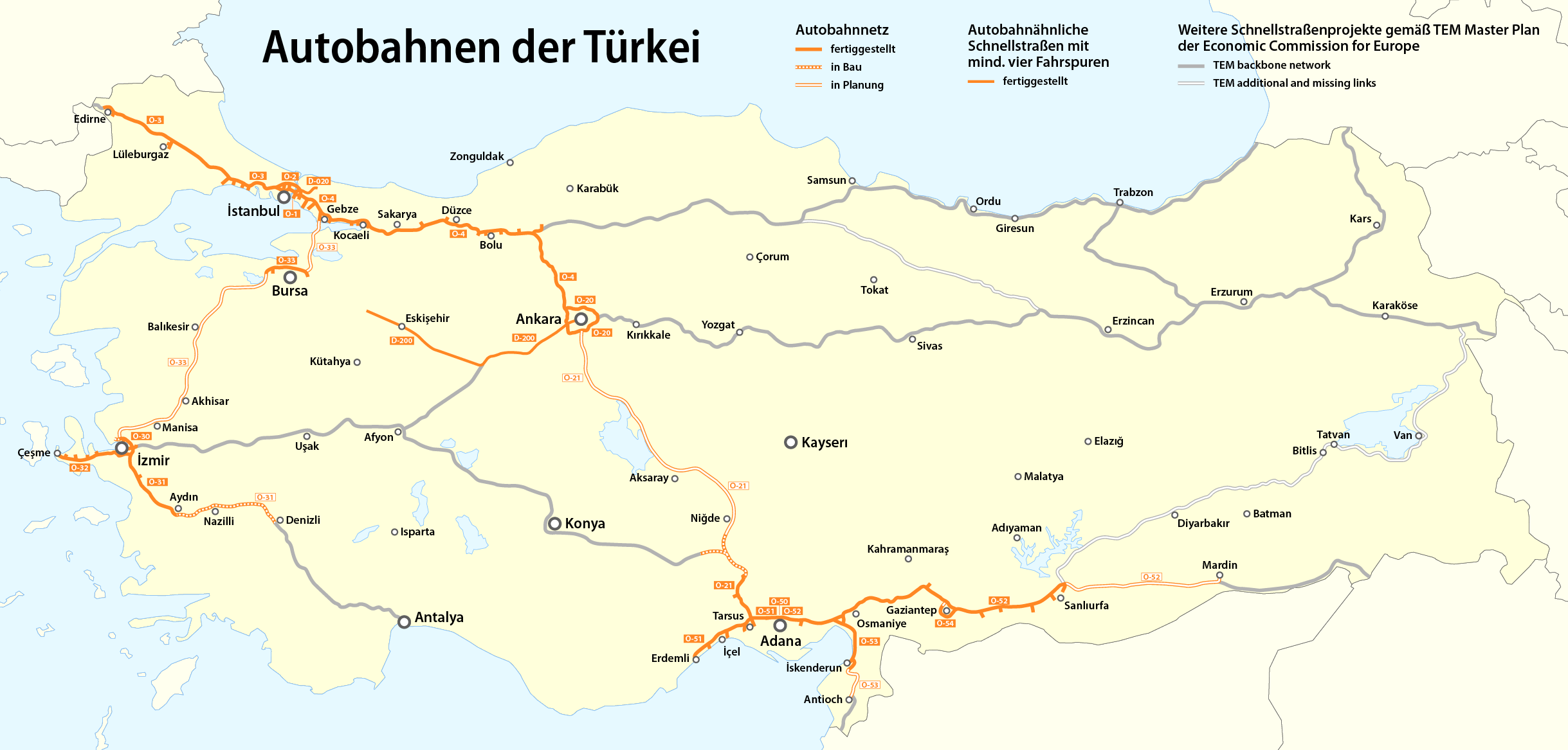 Motorway map of Turkey